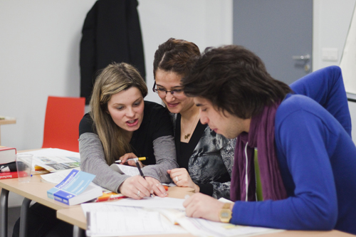 in a classroom